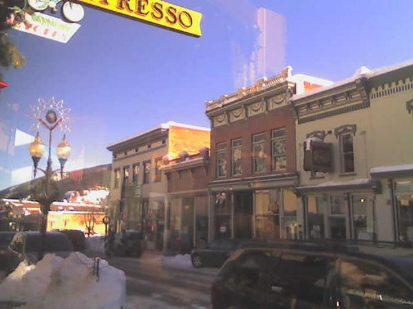 Phone picture of downtown Idaho Springs, Colorado, USA